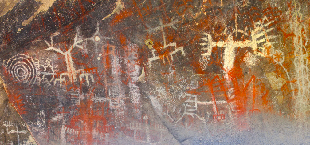 Chumash Cave Paintings in the Burro Flats Painted Cave, Simi Valley, CA.